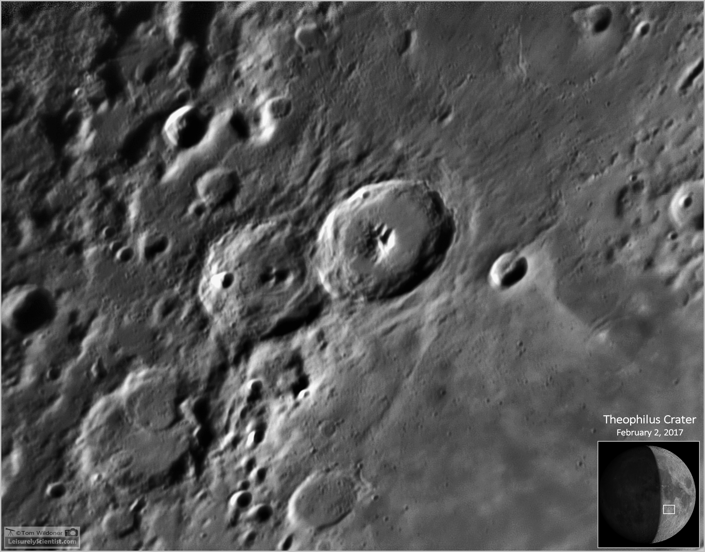 Theophilus Crater – diameter is 100 km and named after the Greek astronomer (c. 412 AD). The rim of Theophilus has a wide, terraced inner surface that shows indications of landslips. The floor of the crater is relatively flat, and it has a large, triple-peaked central crater that climbs to a height of about 2 kilometers above the floor (Wikipedia). Tech Specs: ZWO ASI290MC camera and Meade 12” LX90 telescope mounted on a Celestron CGEM-DX mount. Software used included Sharpcap v2.9 and AutoStakkert! Alpha Version 2.3.0.21. Photographed on February 2, 2017 from Weatherly, Pennsylvania.